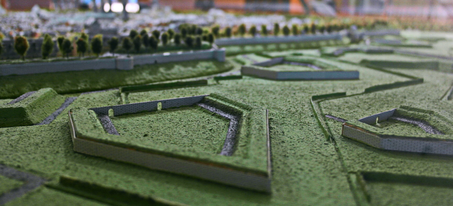 Detail of the copy of the French Maquette of Maastricht on display in Centre Céramique, Maastricht, the Netherlands. The copy was made in 1974-1982, based on the mid-18th-century scale model made for King Louis XV of France. This section shows the western city wall near the so-called Kat Brandenburg (elevation inside the city wall) with several field fortifications around. The large bastion in the foreground was named Engeland.